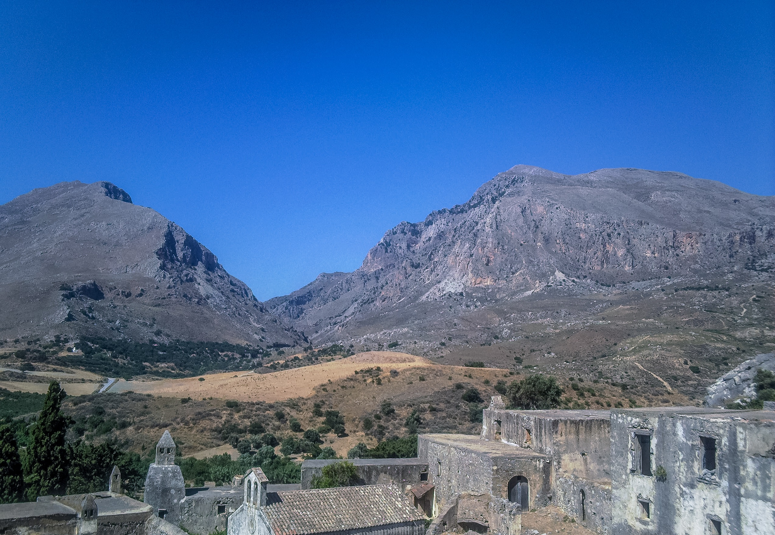 Kato Moni Preveli (monastery), Crete, Greece. This is a photography of Natura 2000 protected area with ID GR4330003